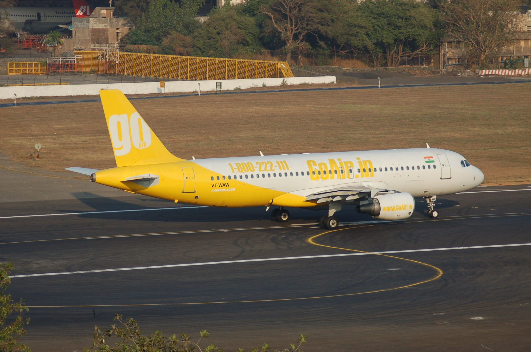 Airbus A320 of Go Airlines at Mumbai, (Chhatrapati Shivaji,) - BOM, India,08/02/07